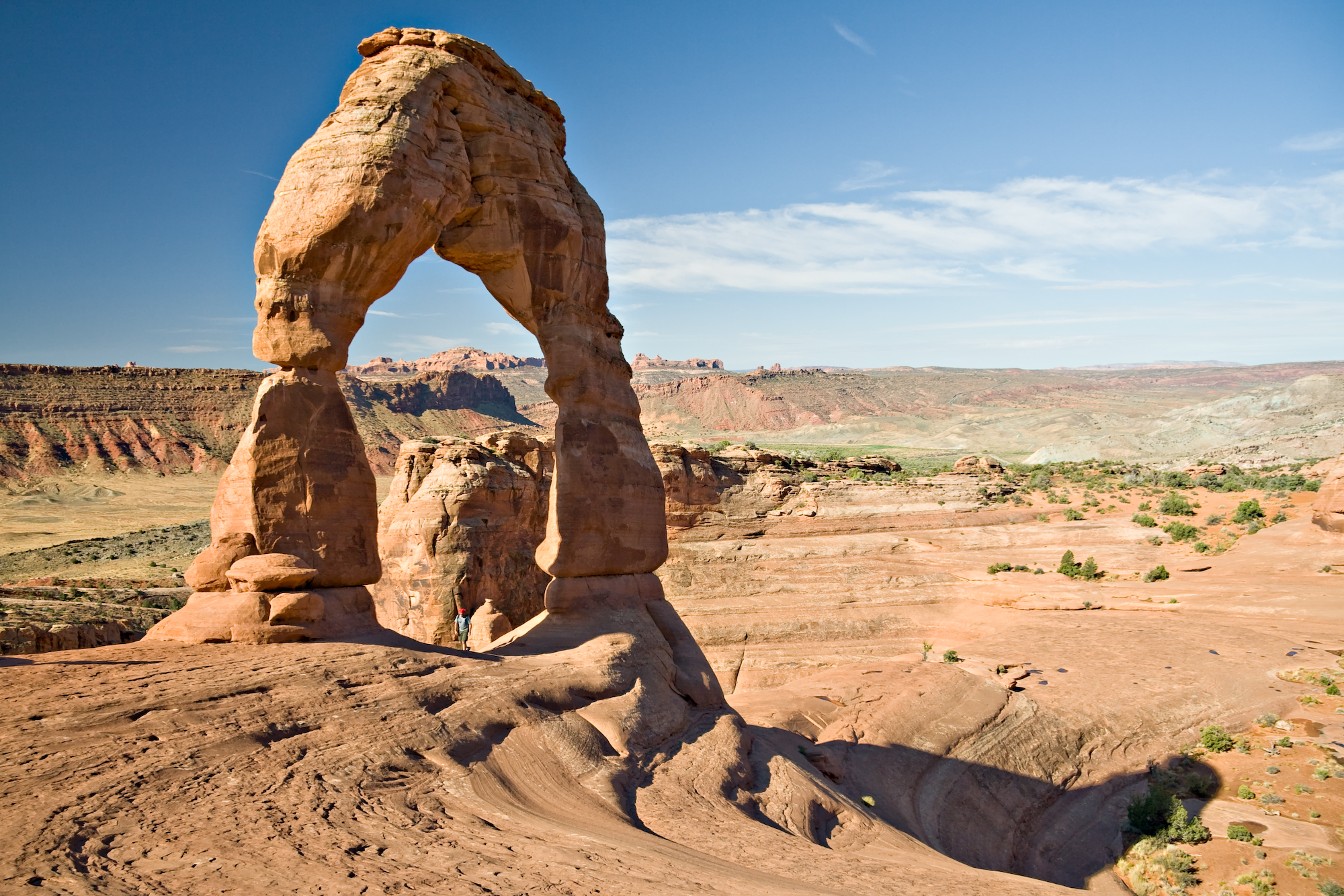 Delicate Arch, a freestanding natural arch located in Arches National Park near Moab, Utah, USA. The hiker under the arch can gives an idea of dimensions.